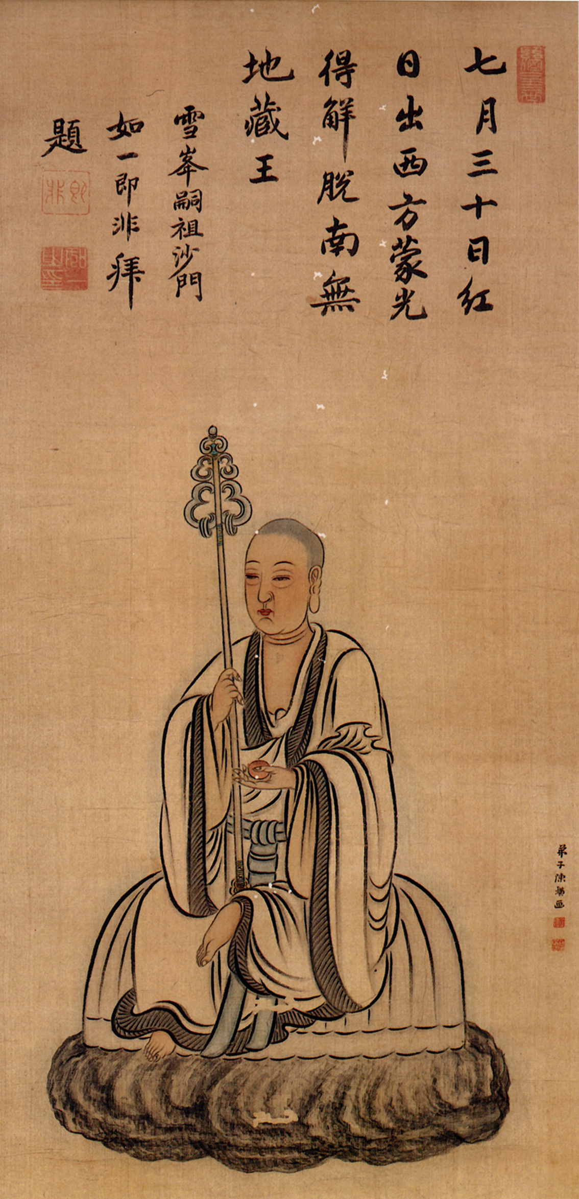 Jizo Bosastu,Chen huang,Inscription by Jifei,color on shiny silk,hanging scroll,Keizui-ji Temple